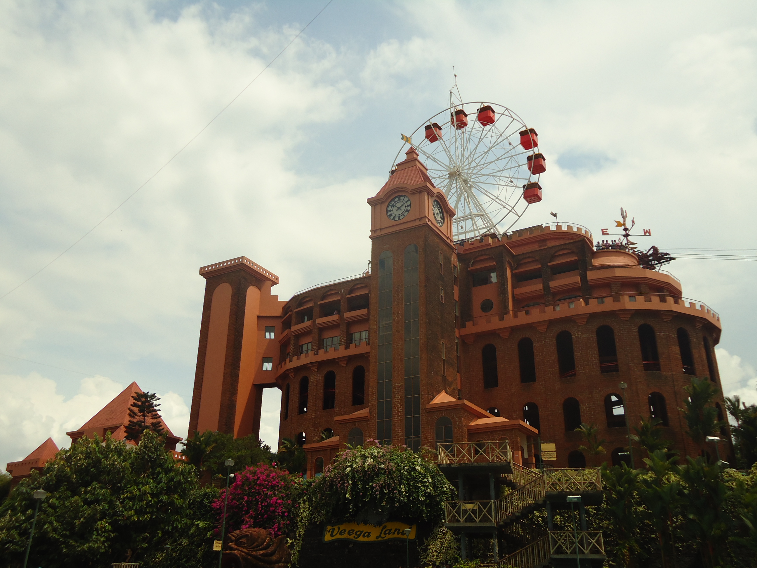 This media file is uploaded with Malayalam loves Wikimedia event. Veegaland full view of the main tower